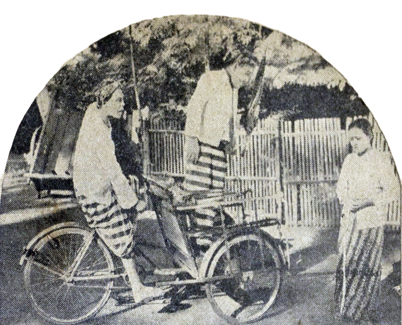 Film still from Lintah Darat